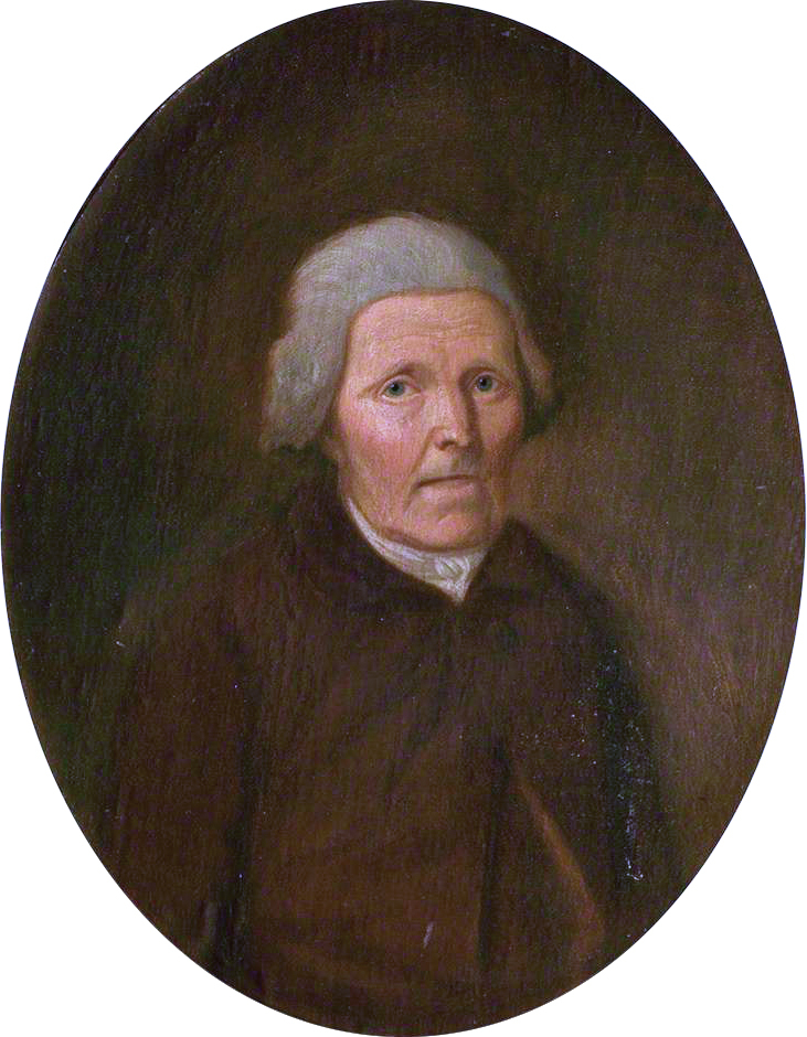 Self portrait oil on canvas 30 x 24 cm 1790s